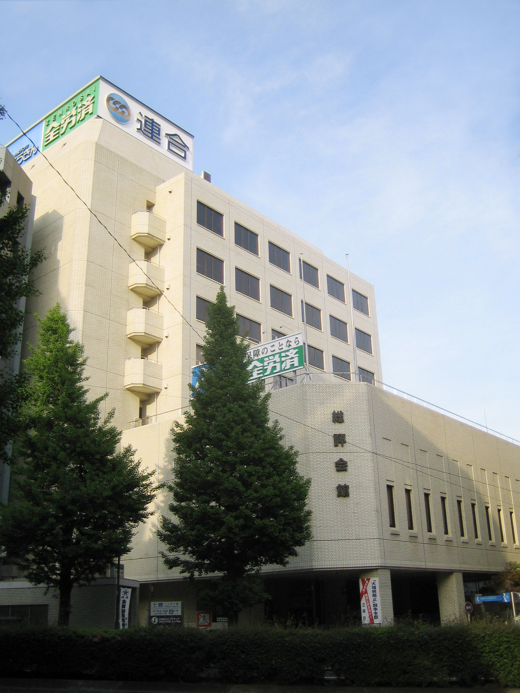 Sohyo Hall (総評会館 Sōhyō Kaikan), in Chiyoda, Tokyo, Japan. The headquarters of the Japanese Trade Union Confederation (日本労働組合総連合会 Nihon Rōdōkumiai Sōrengōkai) alias RENGO (連合 Rengō) located in this building.